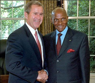 Abdoulaye Wade & George W. Bush President Bush greets President Abdoulaye Wade of Senegal in the Oval Office June 28, 2001. White House photo by Eric Draper.